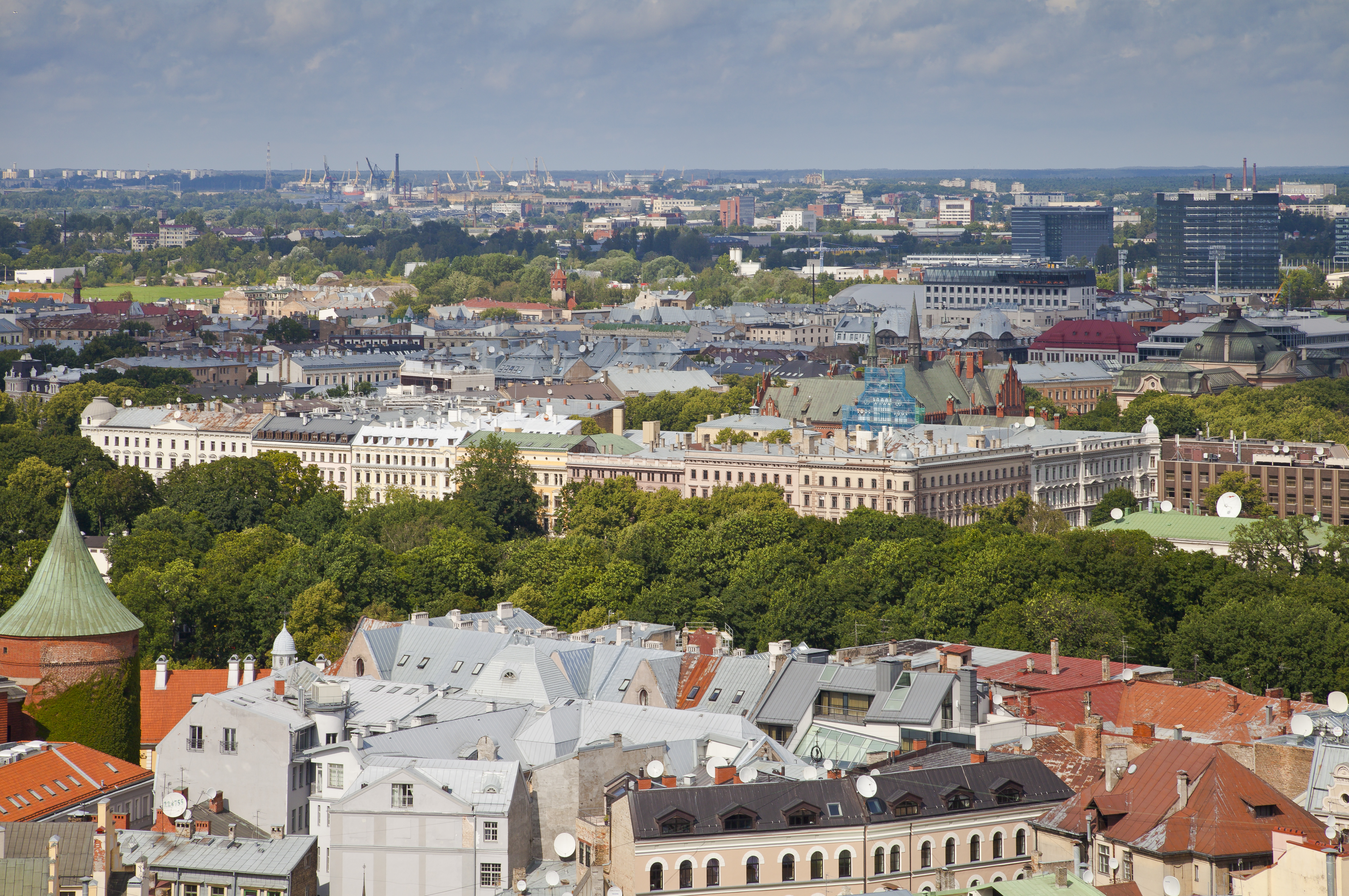 View of Riga from St. Peter's church, Latvia